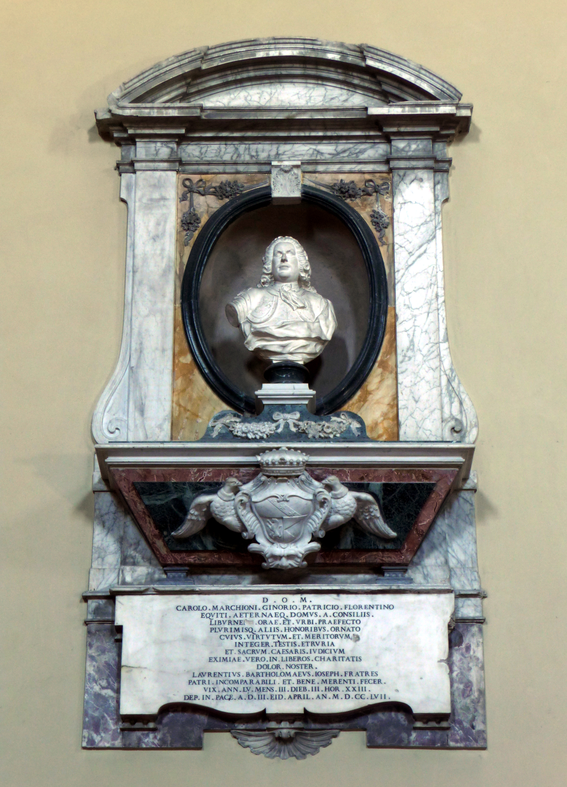 Tomb and Epitaph of Carlo Ginori, Duomo di Livorno, Italy